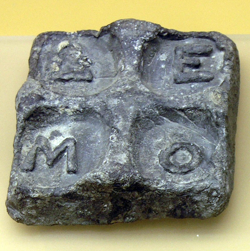 Official commercial weight, lead. Ancient Agora Museum in Athens.